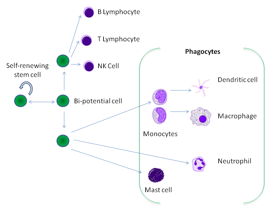 Derivation of white blood cells from stem cells